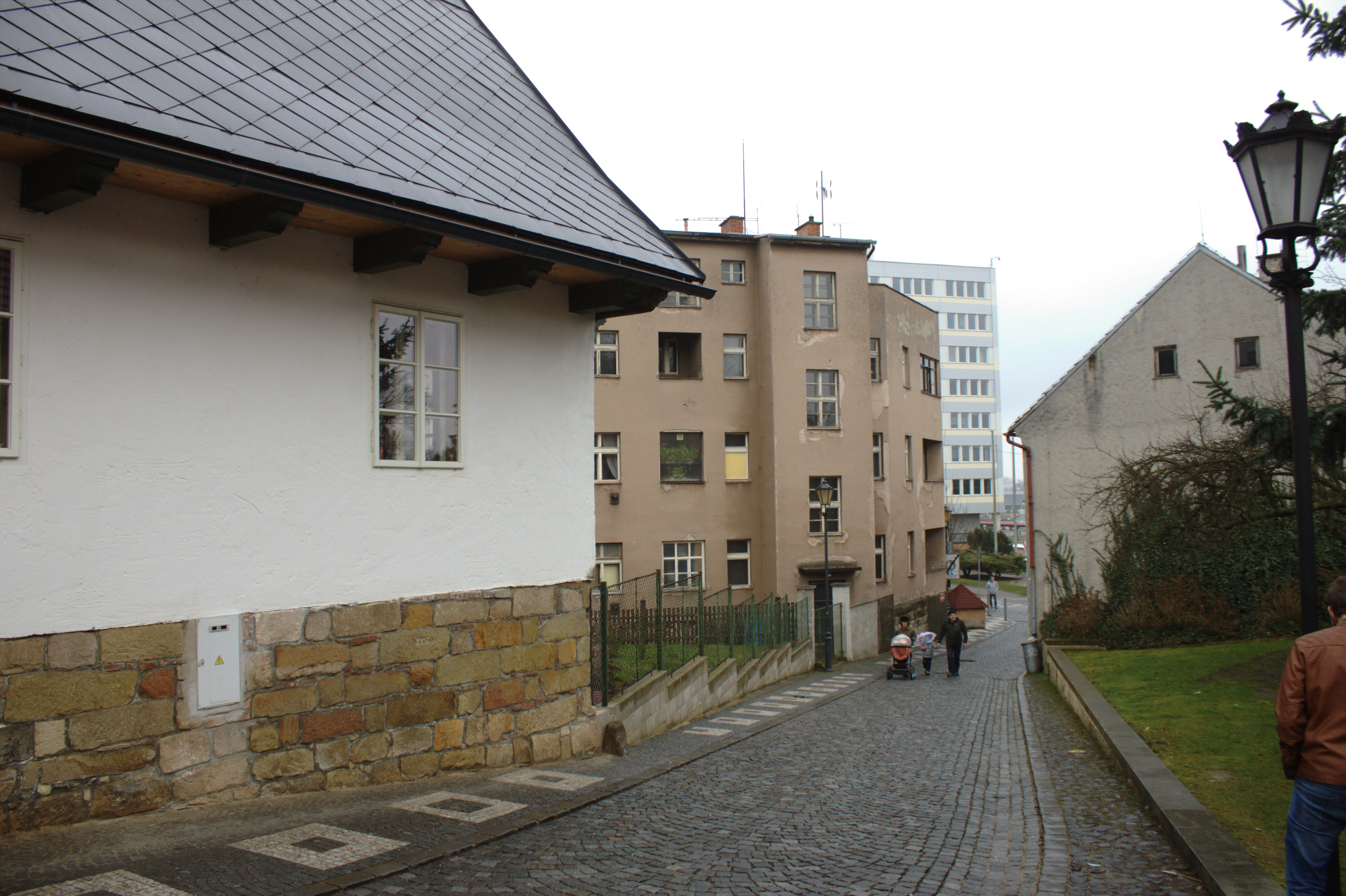 Pod Koštofránkem Street in Jičín, CZ